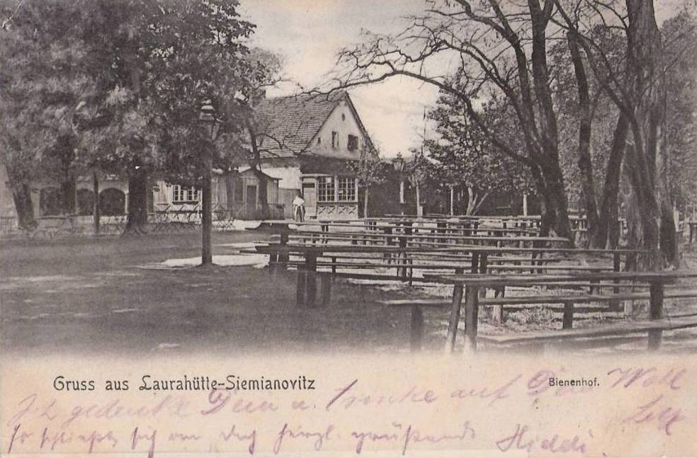 The Bienhof-Park (Bienenof) in Laurahütte-Siemianowitz (now Park Pszczelnik in Siemianowice Śląskie, Poland), German postcard.